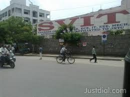 this photo has been taken from tea stall opposite it to svit on the corner on chourastha